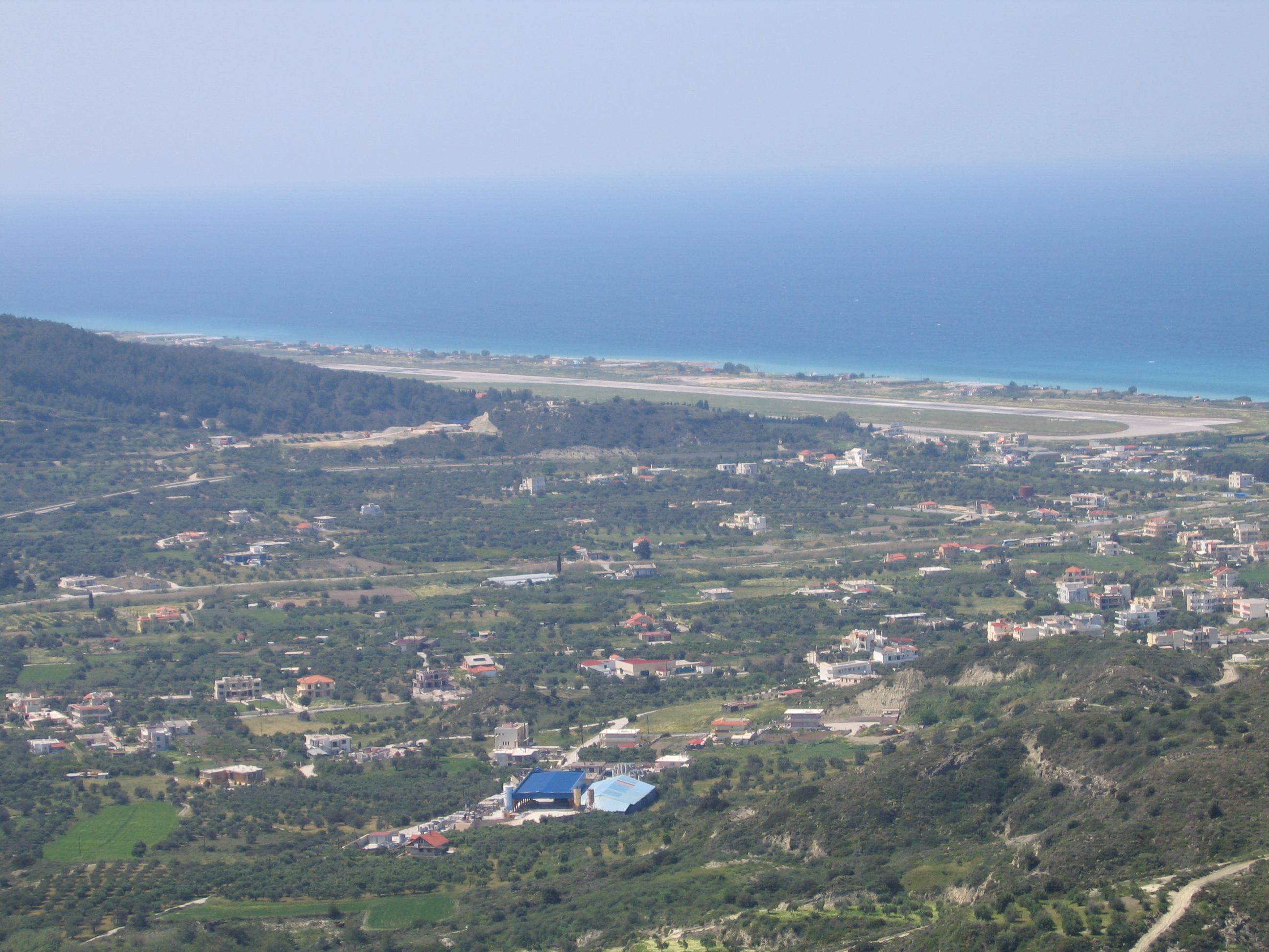 The north edge (25) of the Rhodes Airport runway, shot from Filerimos hill.